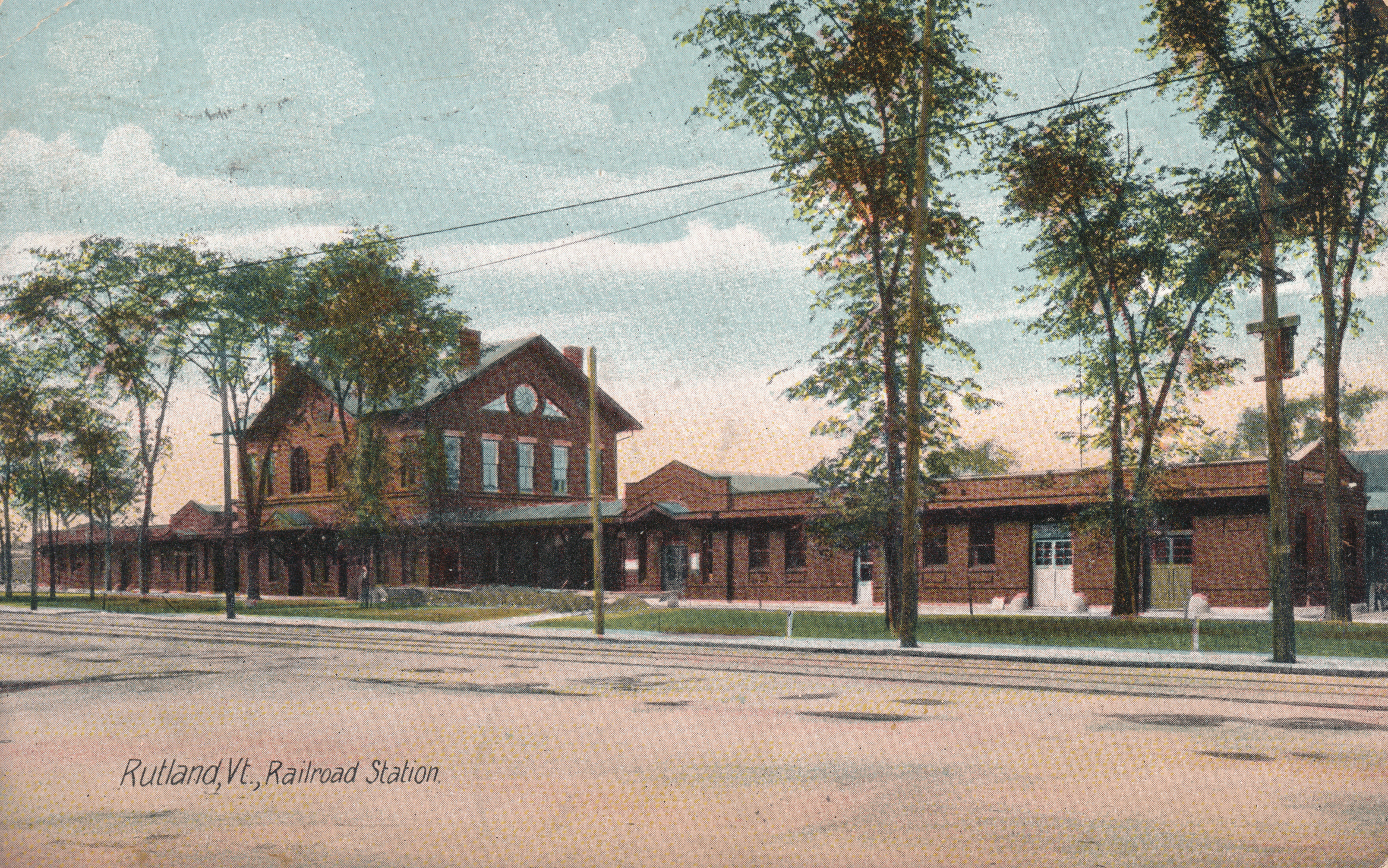 An early postcard of the former Rutland railroad station in Rutland, Vermont. An imprint on the rear of the card reads, "The Hugh C. Leighton Co., manufacturers, Portland ME, USA."